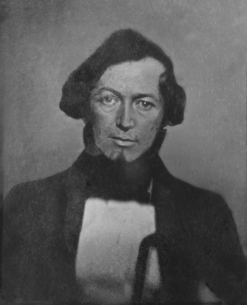 Daguerreotype photograph of Elliott Cresson by photographer Robert Cornelius, cropped, gray-scaled, tone balanced between dark and light.